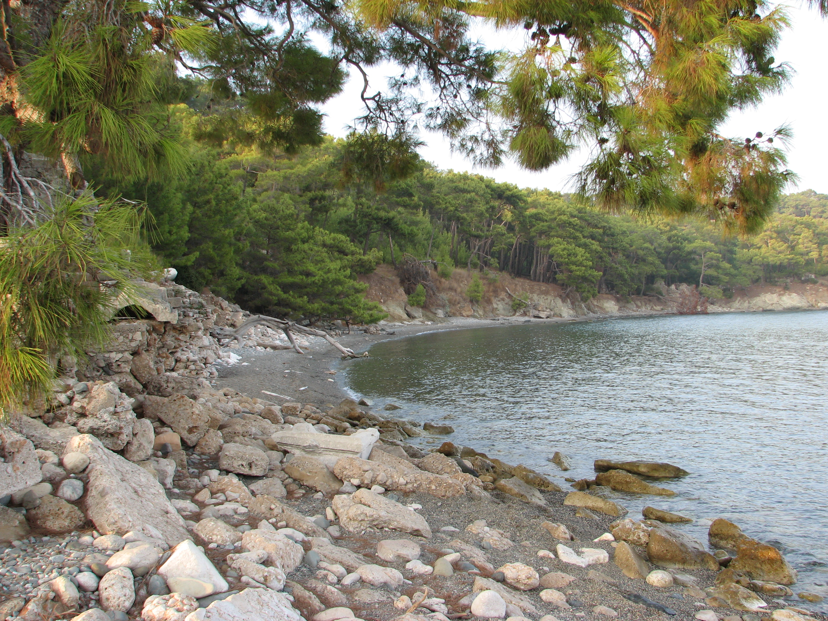 Phaselis, bay